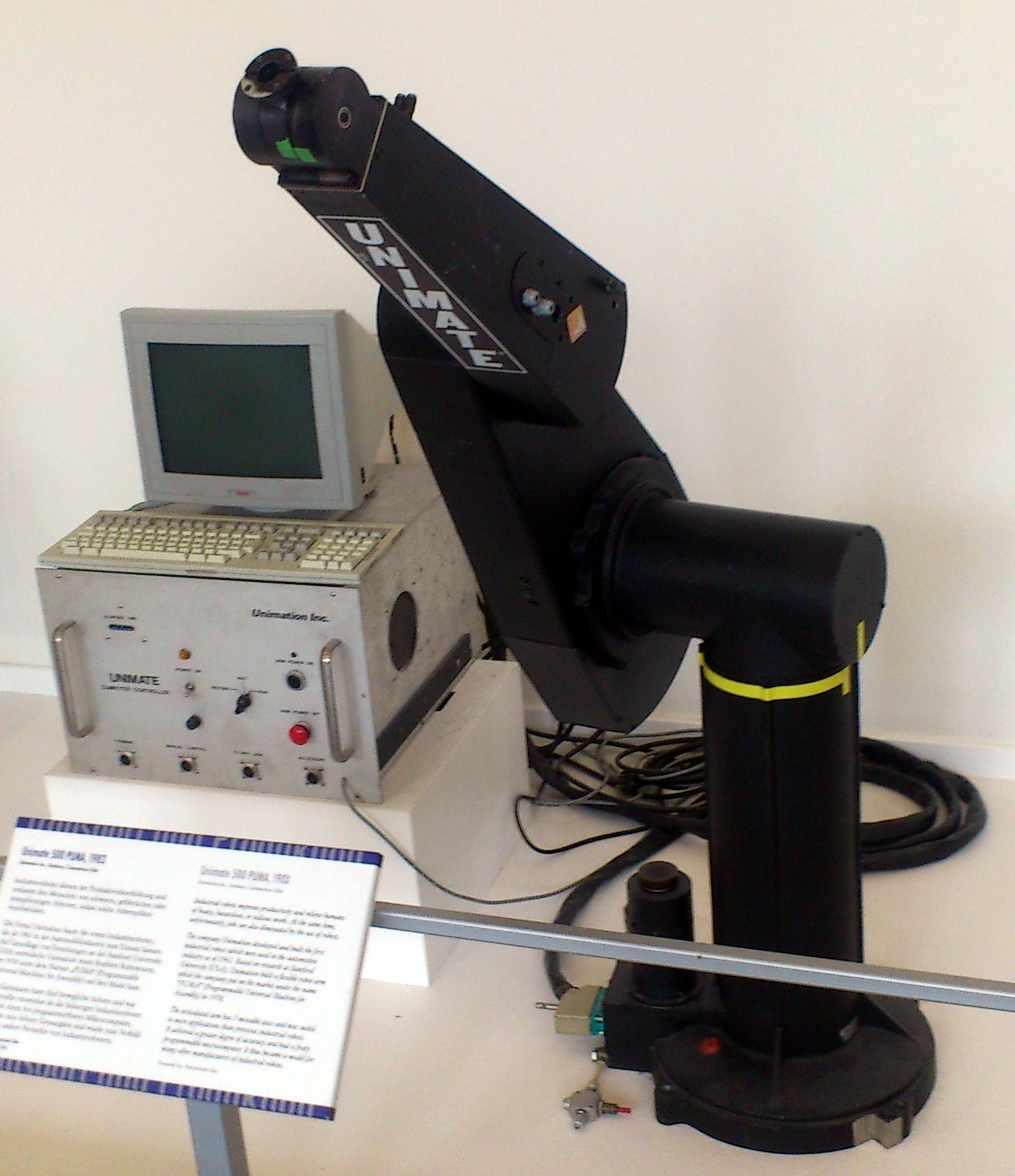 Unimate 500 Puma (1983). Industrial robot, control unit and computer terminal. Exhibit of Deutsches Museum, Munich.